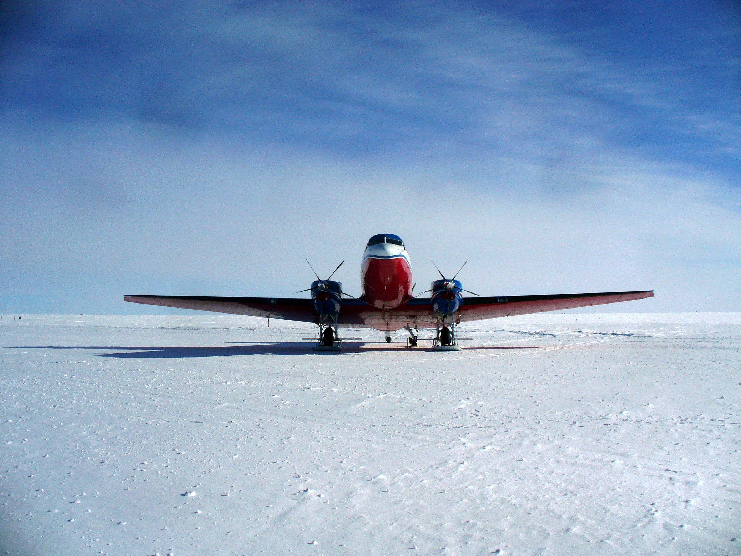 Basler DC-3 operated by ALCI on the skiway at Amundsen-Scott South Pole Station, December 2009.